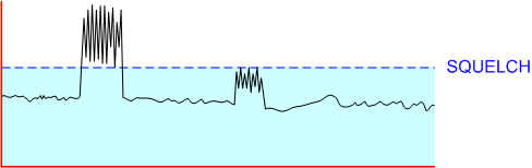 Principial drawing of how a squelch-circuit in radio communications work (drawing 3 of 4)